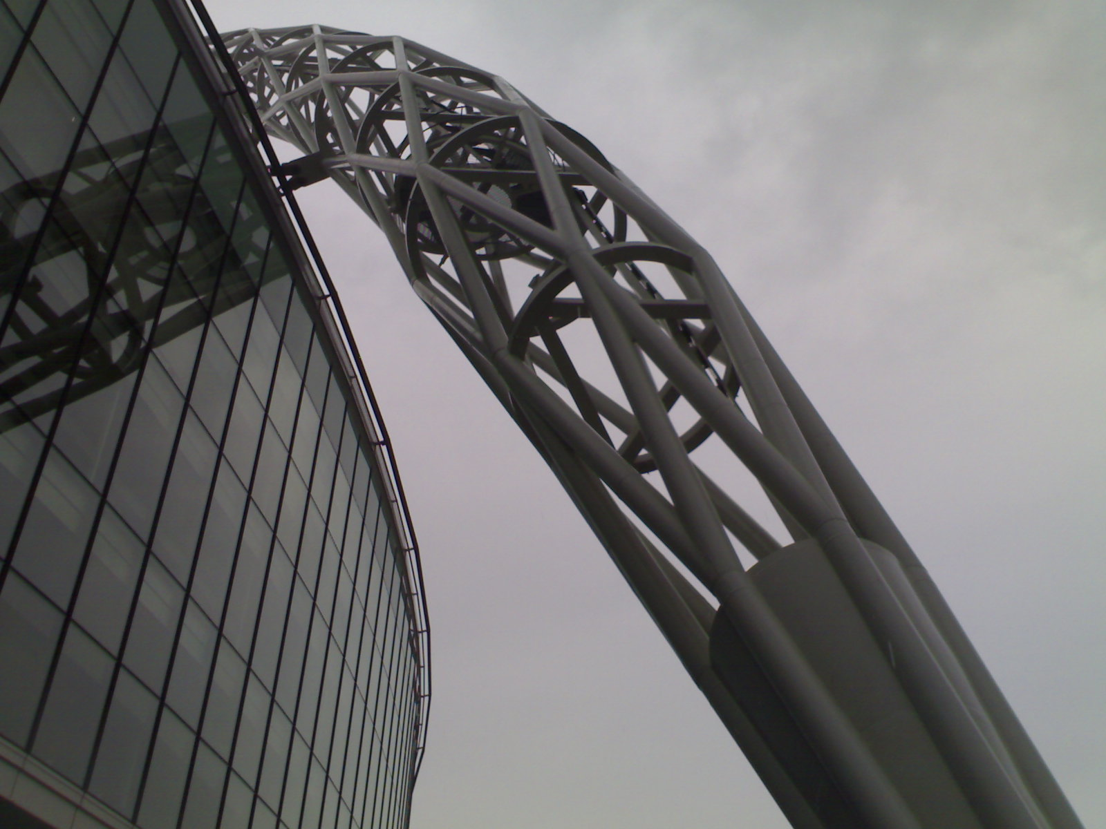 Photo taken by Marco Alfarrobinha, on the 27/05/2007 at the New Wembley after the League 1 Play-Off Final between Blackpool and Yeovil Town. Dimension: 1600x1200 Date Picture Taken: 27/05/2007, 16:59 Camera Model: Nokia N91 Type: JPEG Image Size: 219 KB